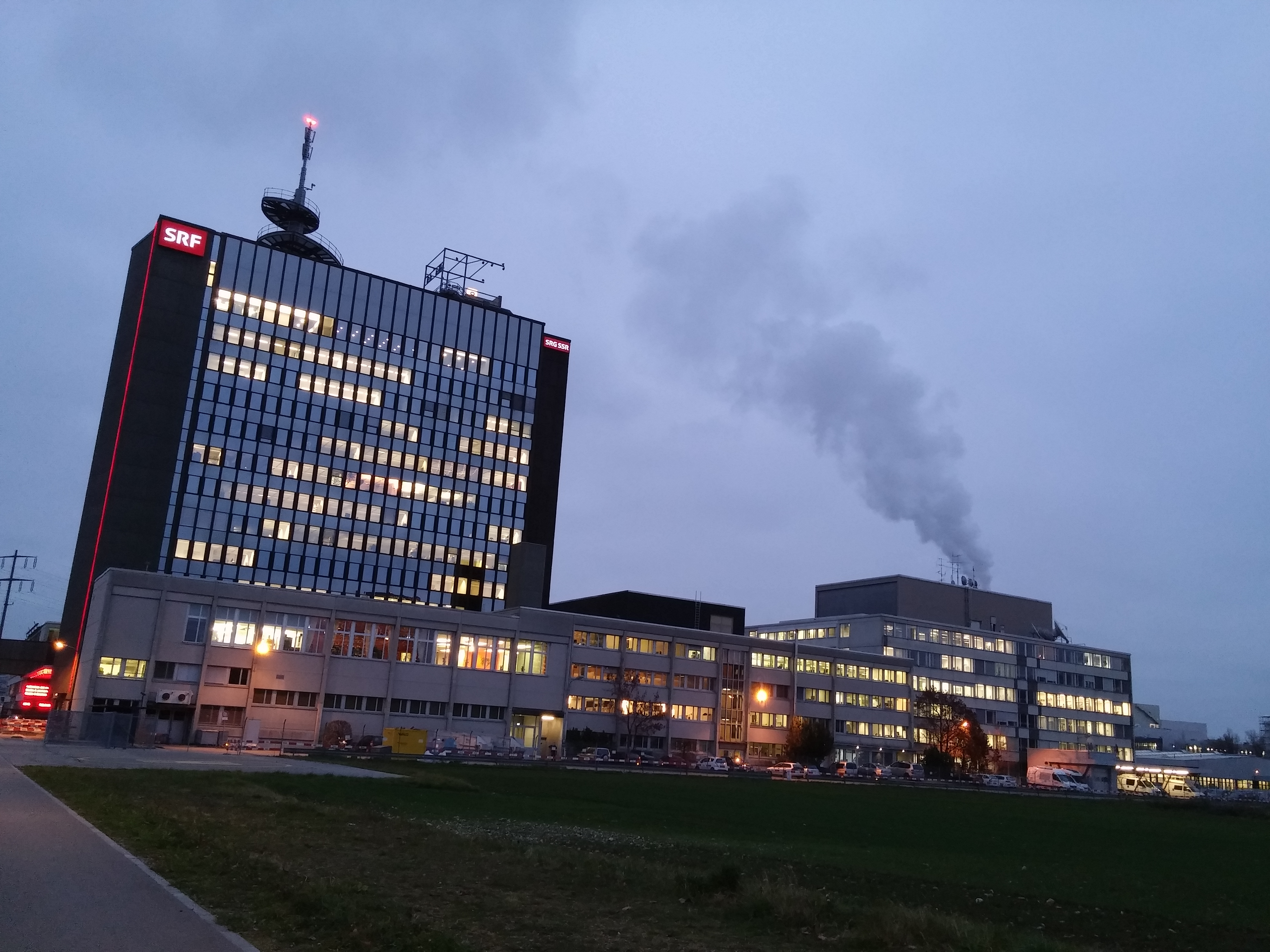 The SRF headquarter in Zurich.